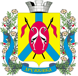 Coat of arms of Druzhkivka